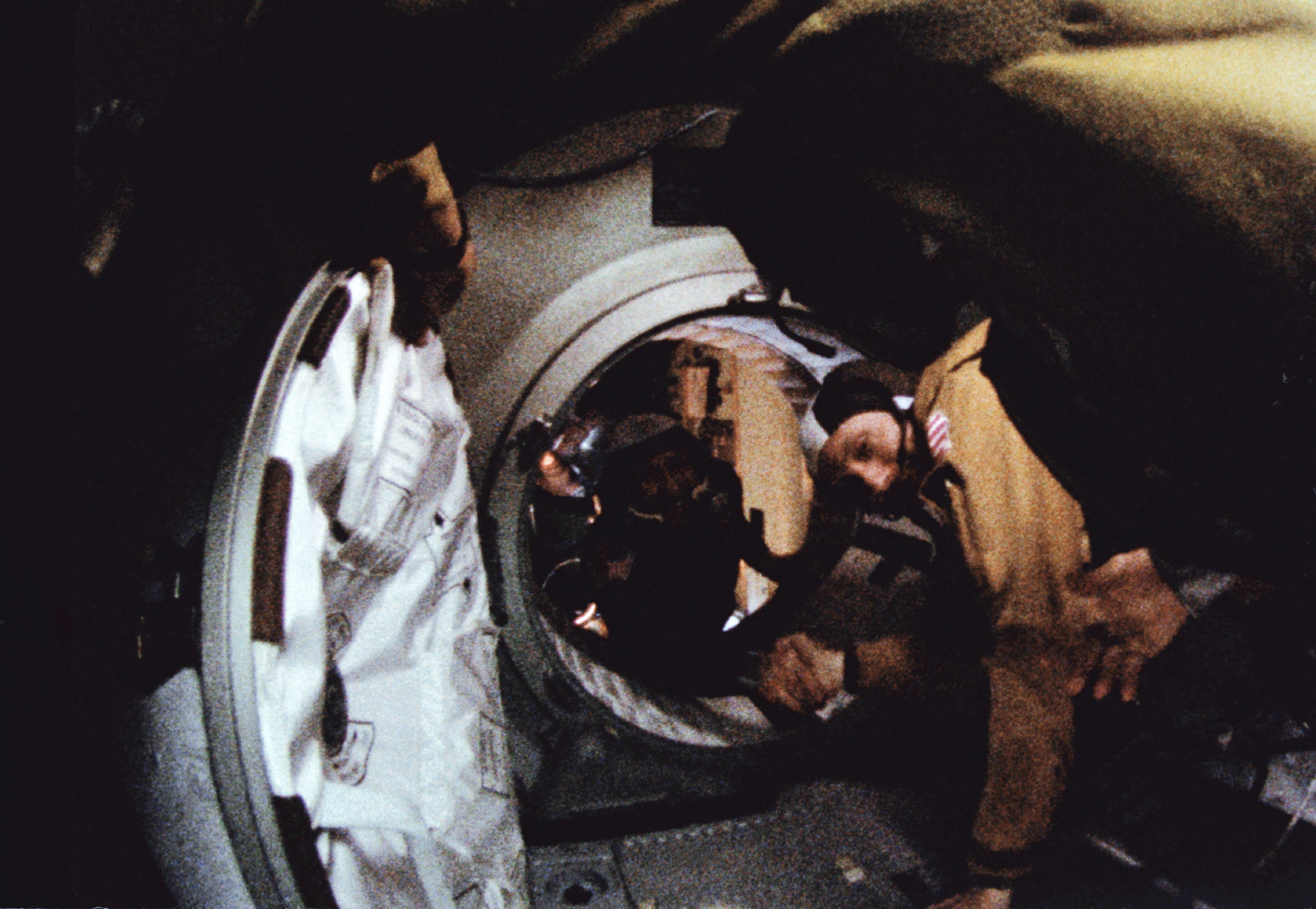 Apollo Commander, Astronaut Thomas P. Stafford (in foreground) and Soyuz Commander, Cosmonaut Alexei A. Leonov make their historic handshake in space during the joint Russian / American docking mission known as the ASTP, or Apollo Soyuz Test Project. The handshake took place after the hatch to the Universal Docking Adapter (UDA) was opened. Stafford is inside the UDA and Leonov is inside the Soyuz. The UDA was a specially designed docking module that was built by the United States that enabled the two spacecraft to link-up. It was attached to the Apollo Command Module during rendezvous and docking maneuvers. Once docking was complete, the module was pressurized.This grainy image was made from a frame of 16 millimeter motion picture film.